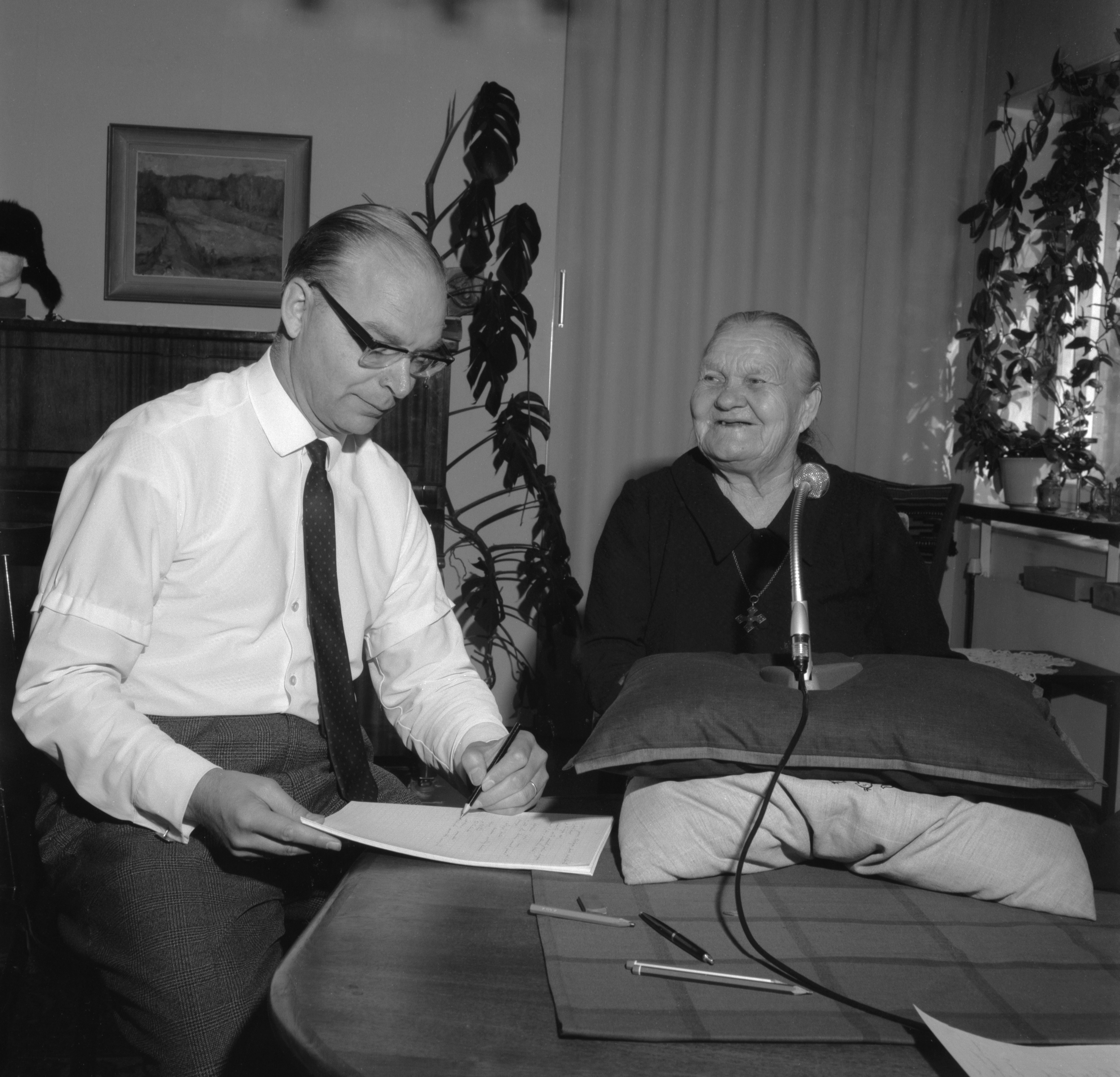 Photograph of the Finnish linguist Pertti Virtaranta (1918–1997) interviewing Ms. Marina Takalo, a speaker of Oulanka dialect of the Finnish language.